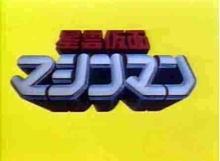 Machineman logo